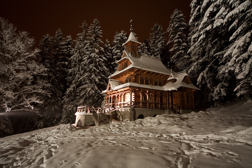 Wooden Chapel in Jaszczurowka, Zakopane